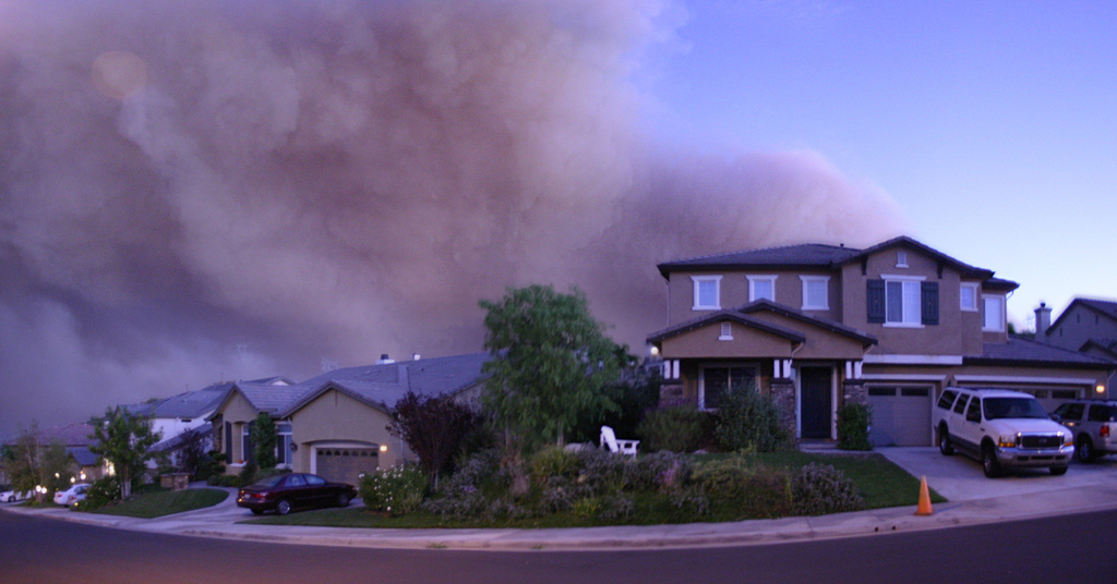 Fires near Seco Canyon in Santa Clarita/Saugus.